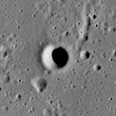 Pupin, Mare Imbrium, on the moon. Camera Altitude is 102 km, Sun Elevation is 15° (from right).